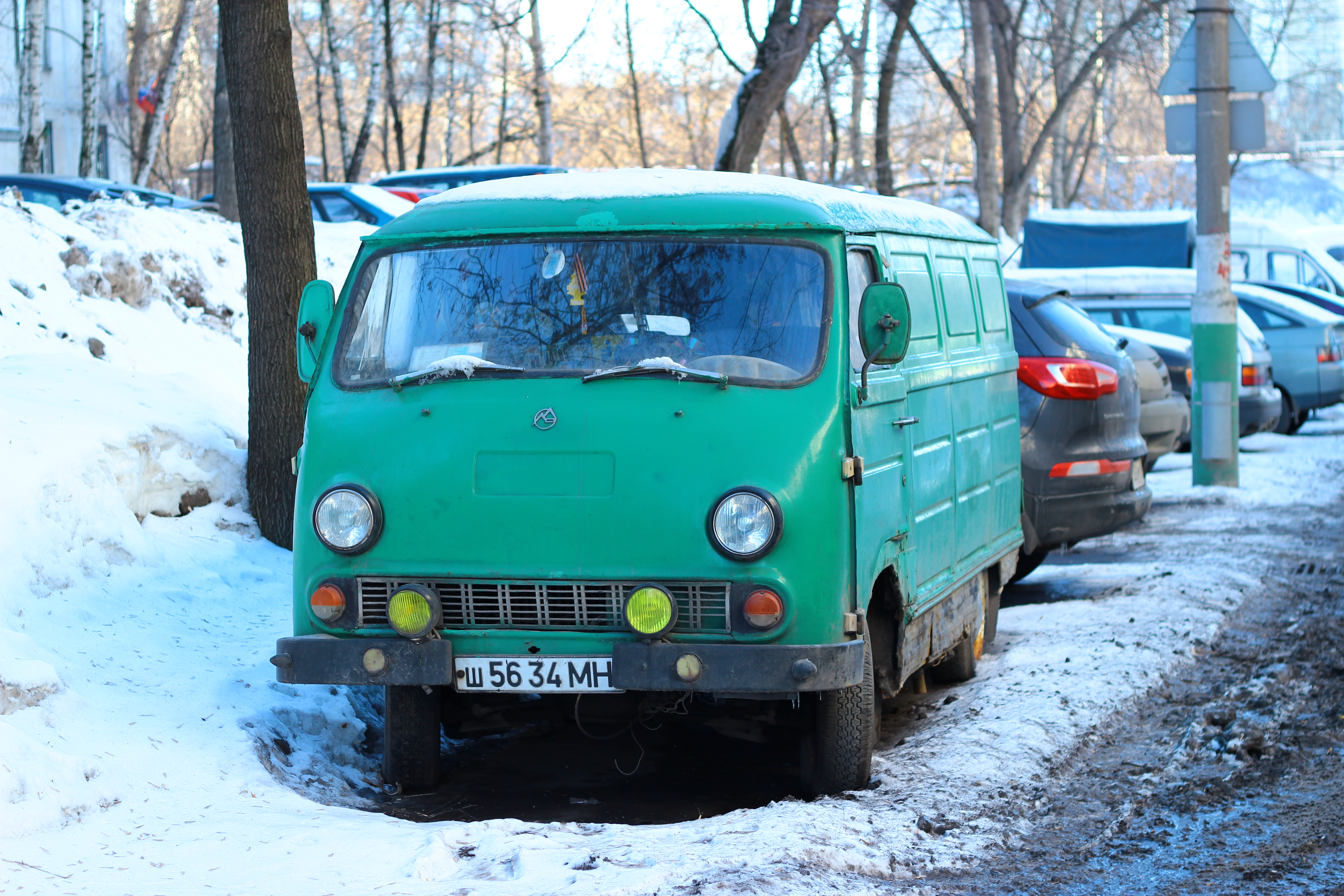 Green ErAZ-762 van in Moscow.